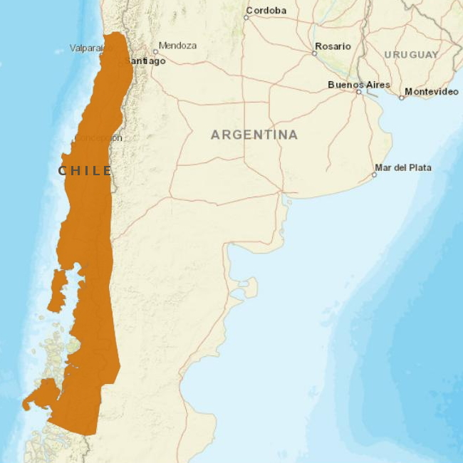 Distribution of Guigna